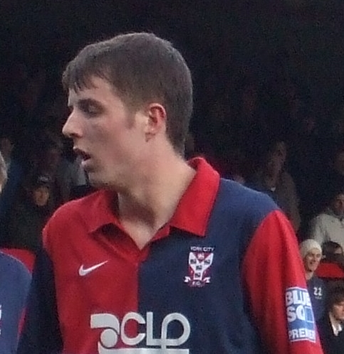 Adam Boyes playing for York City against Havant & Waterlooville at Bootham Crescent, York on 21 February 2009